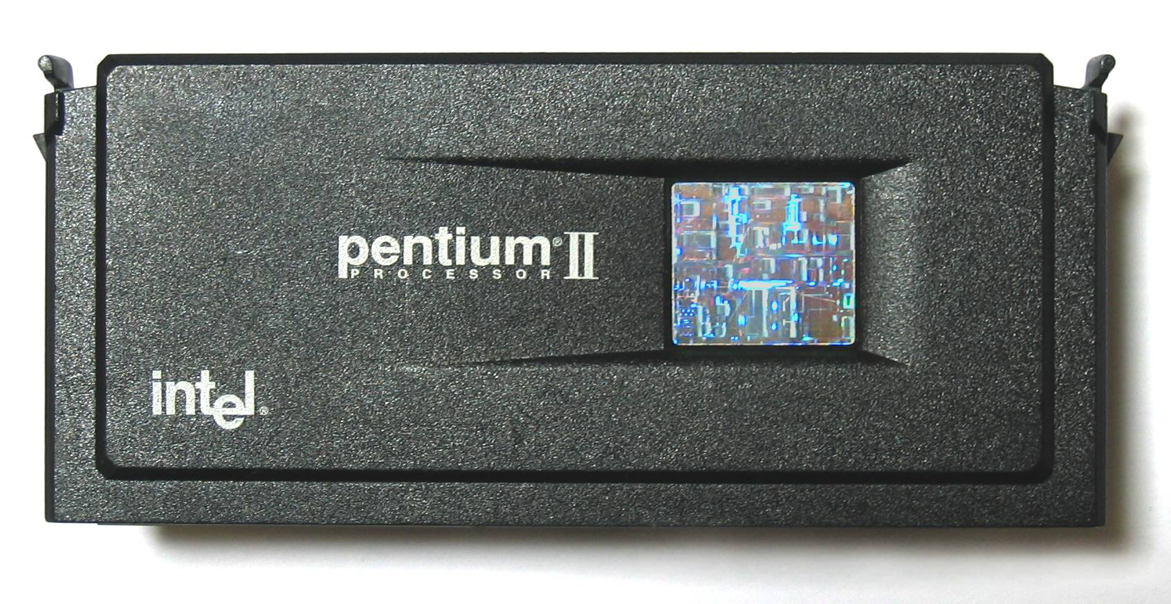 Intel Pentium II processor with MMX technology 350 MHz S.E.C.C. (B80523P350512E SL2WZ 2.0V MALAY)